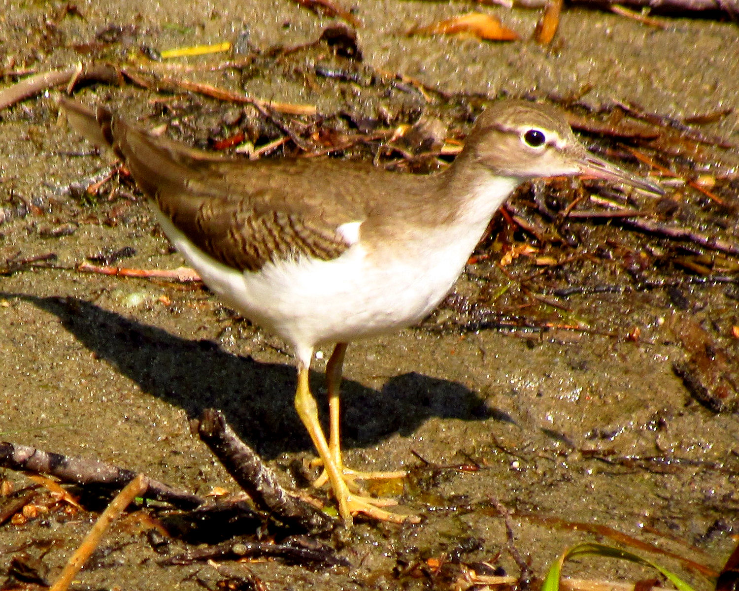 Spotted Sandpiper (Actitis macularius), Cantley, Quebec, Canada